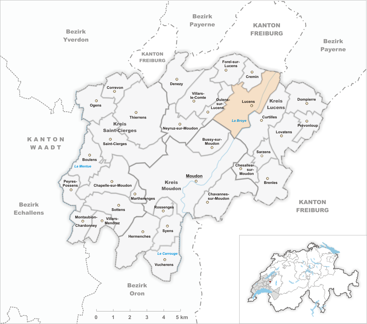 Municipality Lucens